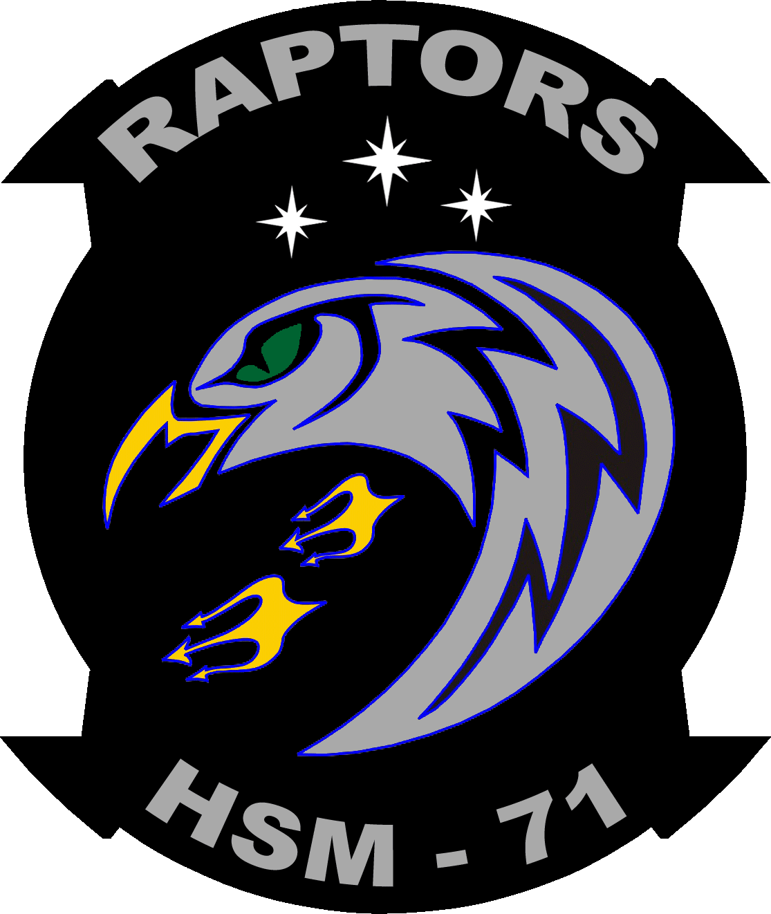 Insignia of the U.S. Navy Helicopter Maritime Strike Squadron 71 (HSM-71) "Raptors".Official description: "The insignia was developed to characterize the men and women who have become known as Raptors. Raptors, or birds of prey, are known by three primary characteristics- keen eyesight, undisputed mastery of the skies, and unrivaled hunting prowess. Raptors exhibit an extraordinary variety of hunting techniques. Some raptors soar as they watch for prey on the ground. Others are known for their skillful aerial maneuvering resulting in prey being snatched unaware. And still others hover when hunting, and then dive steeply down on their targets. The name and image of a Raptor represent the exceptional skill and lethal combat capabilities the HSM community brings to naval warfare. From nautical origins, the trident is often associated with Poseidon, the god of the sea in Greek mythology. The insignia combines the exceptional aerial skills and deadly combat efficiency of the raptor with an implied mastery of the sea through the use of a trident. The black background represents the all weather, day and night capabilities of our multi-mission helicopters that have supported the HSL community since its inception, principally the SH-2F and the SH-60B. The third and brightest star signifies the current generation of crew and aircraft, which brings the greatest capability and lethality to the new HSM community. Just as a raptor flies the skies in search of prey, the men and women of the HSM community fly the skies ensuring naval dominance."[1]